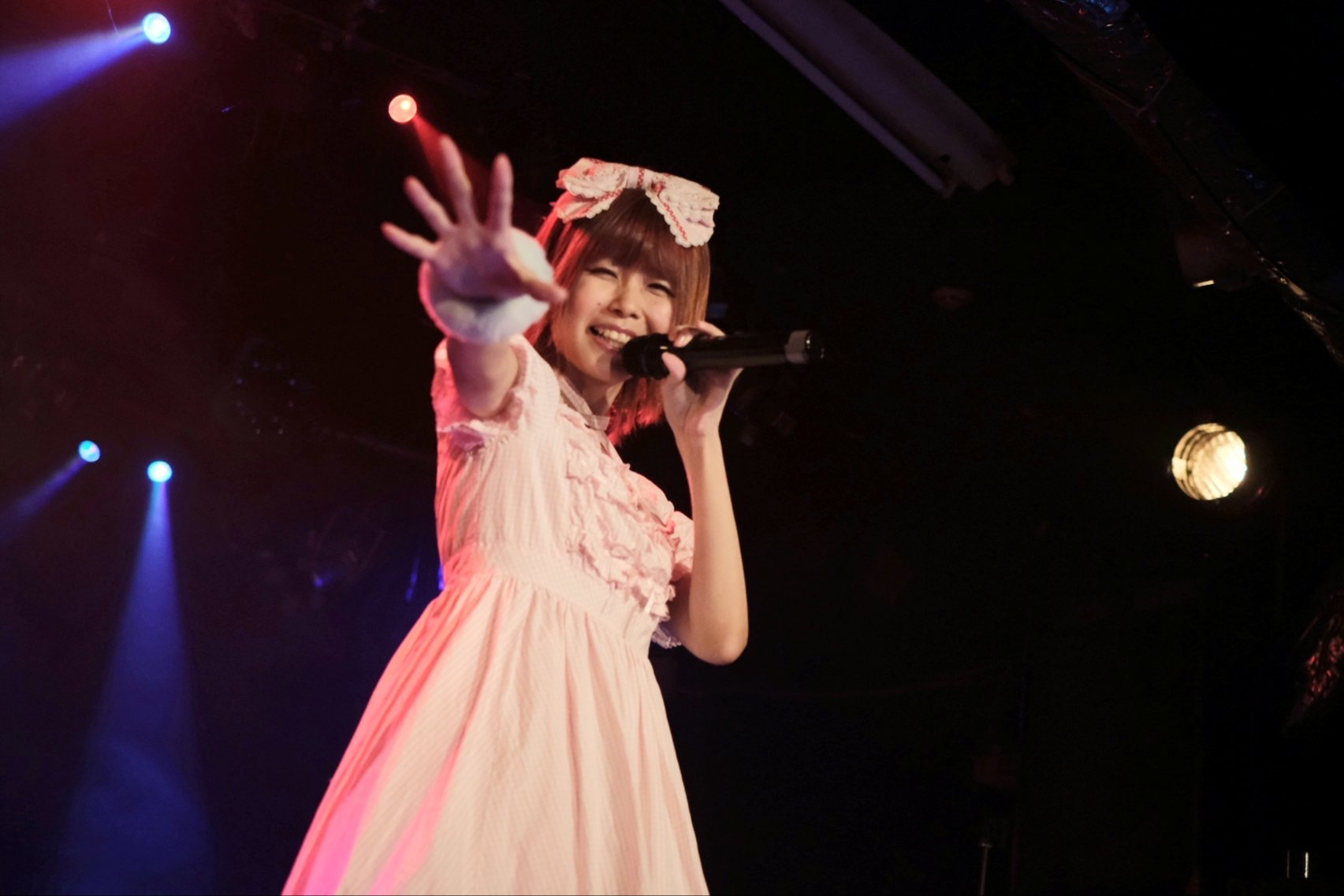 moz is performing live at the live house WOW in Kokurakita-ku, Kitakyushu.